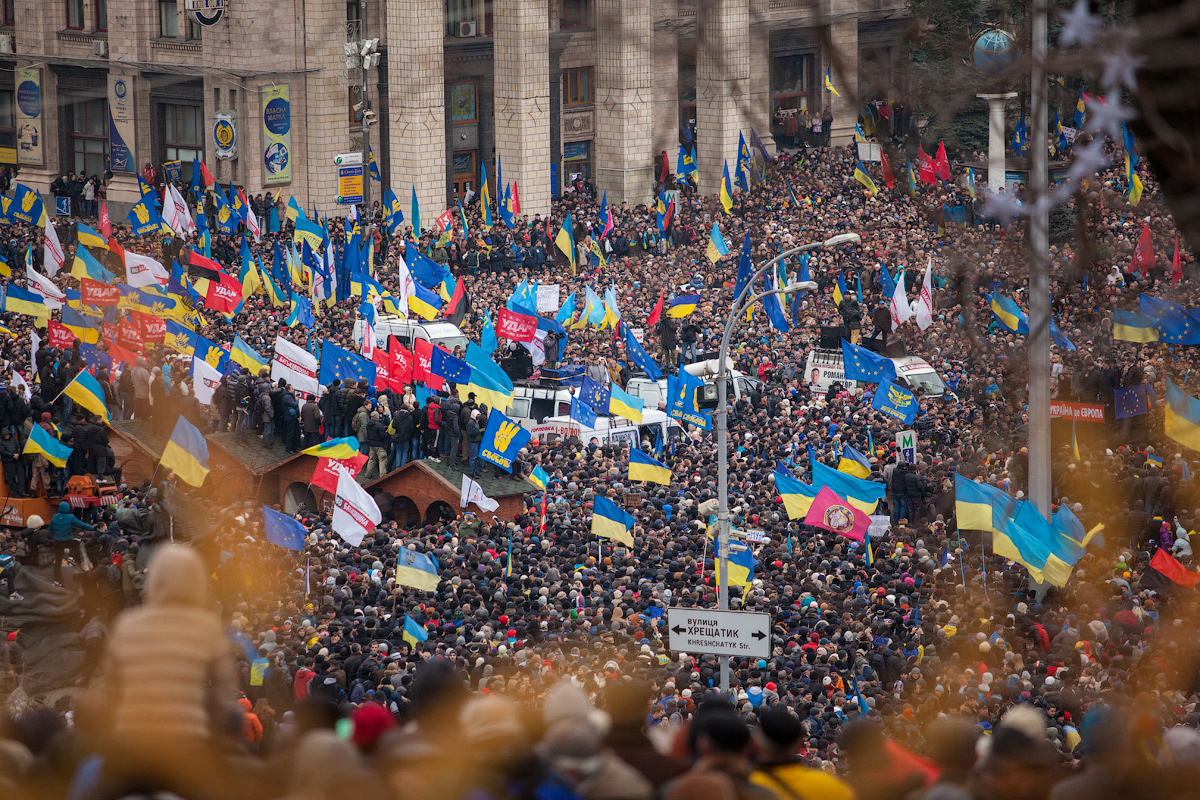 Euromaidan in Kyiv on 1 December 2013 by Nwssa Gnatoush